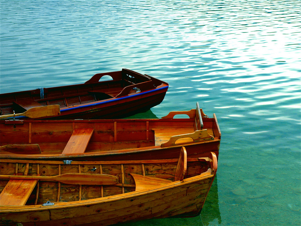 Boats at Lake Bled